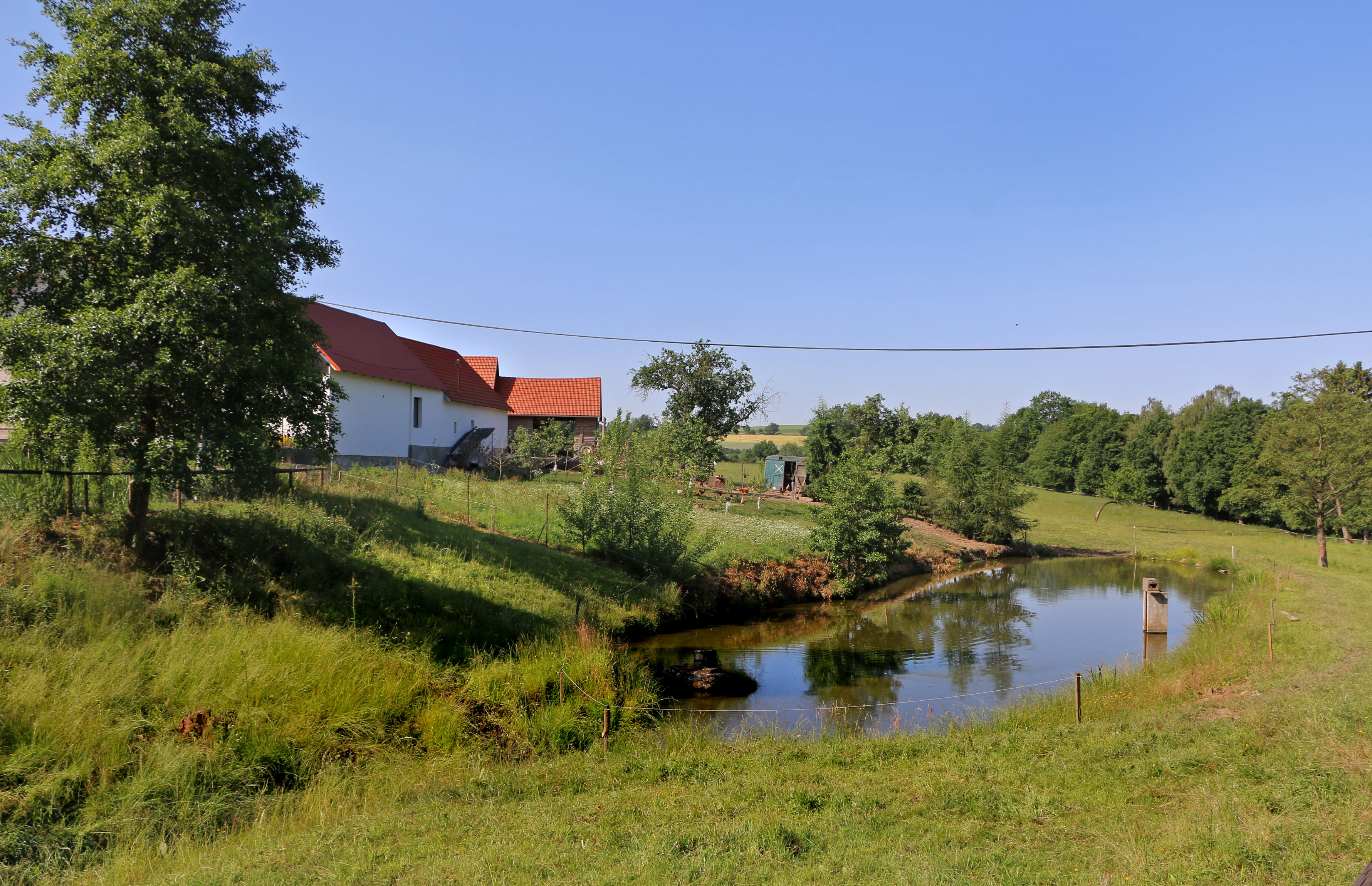 Small pond in Styrov, part of Červený Újezd, Czech Republic.